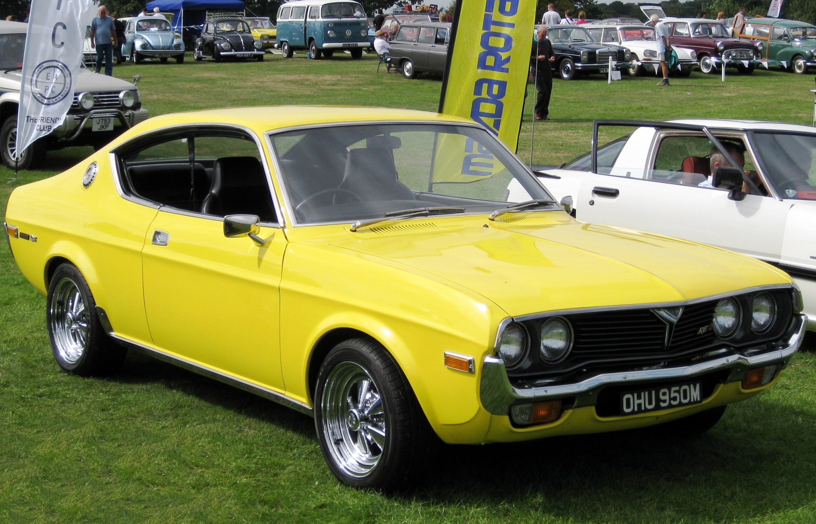 Mazda RX4 from 1973